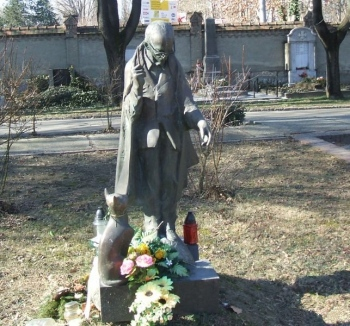 Monument of Endre Grastyán in Pécs Hungary